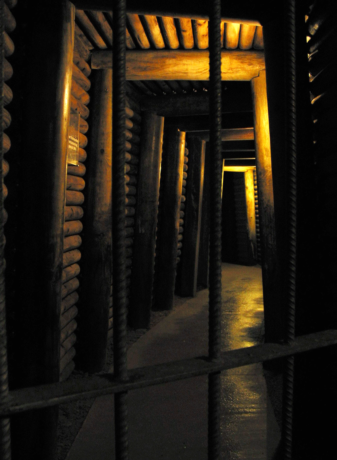 Former air-raid shelter in the tunnelsystem of the cave in Weimar